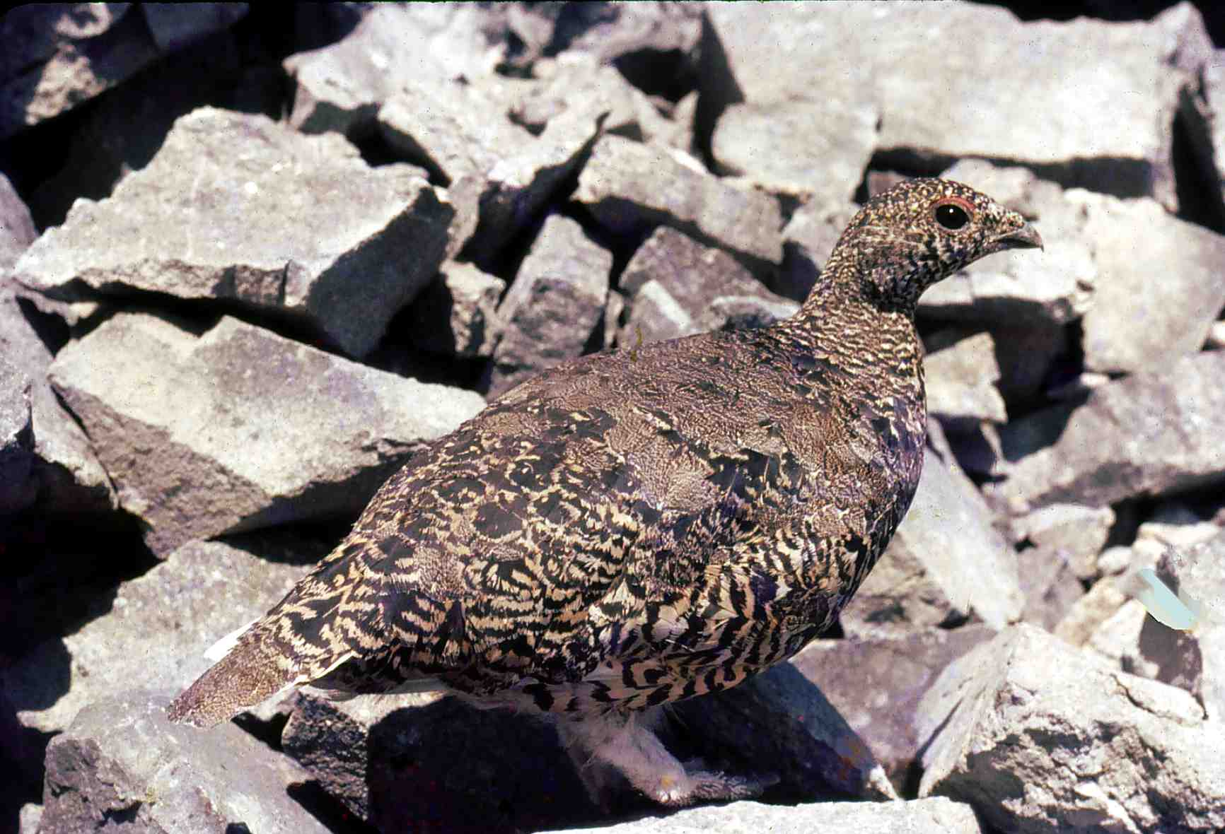 White-tailed_Ptarmigan._Highwood,_Alberta.